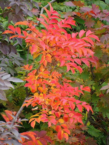 Toxicodendron vernicifluum autumn colour